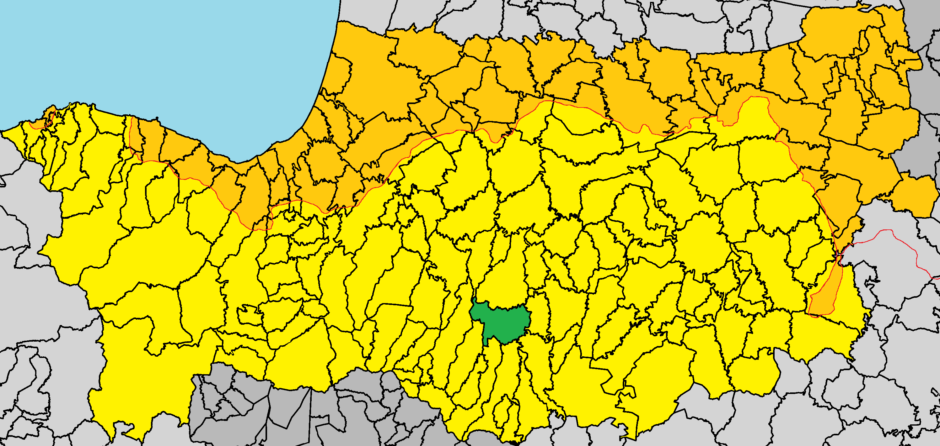 Agios Epifanios Oreinis in Nicosia District.